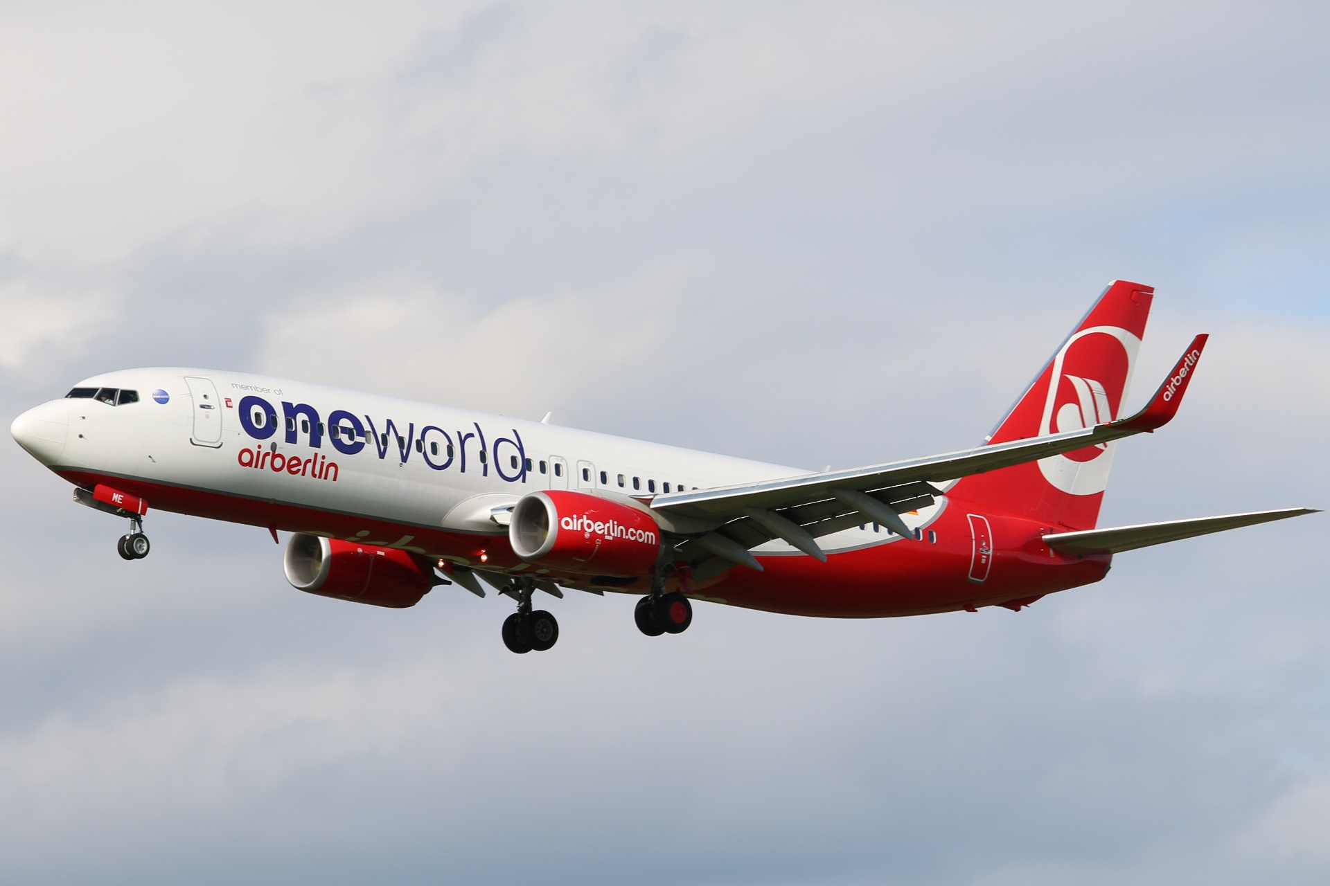 Landing Air Berlin 737 in Düsseldorf with OneWorld Livery